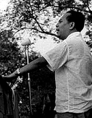 Close up cut out of the larger image: Sjahrir_speaking_at_1955_PSI_election_rally_in_Bali.jpg